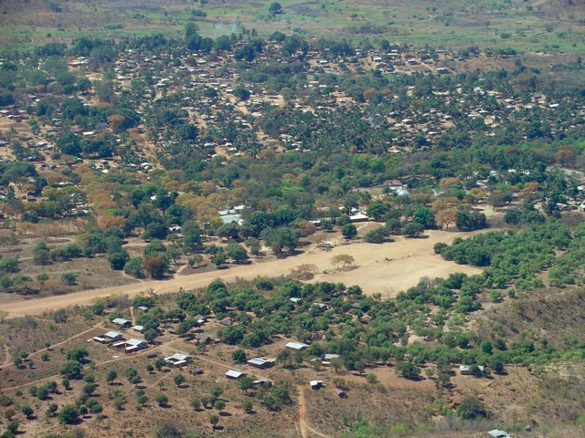 The Mbesa mission compound and village.